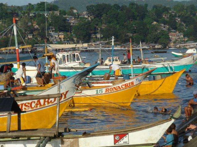 Fisherboats at the shoreline of Pagandian City